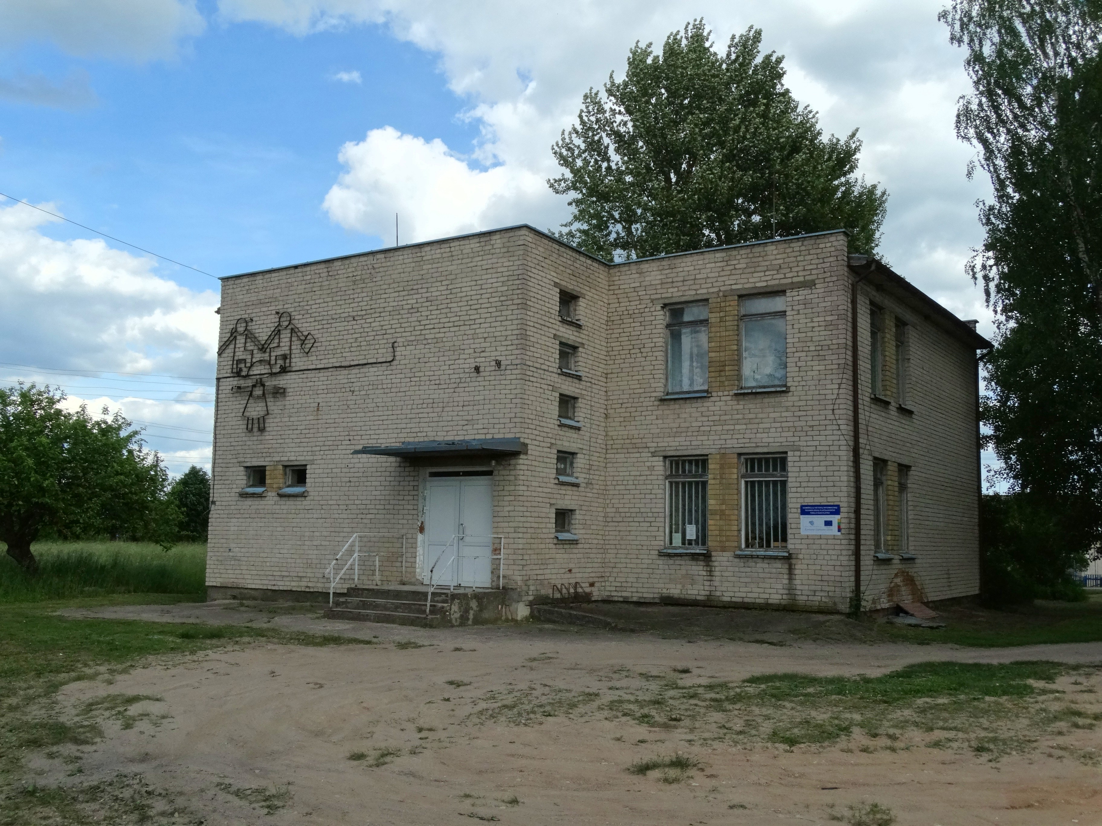 Prienai, Švenčionys District, Lithuania